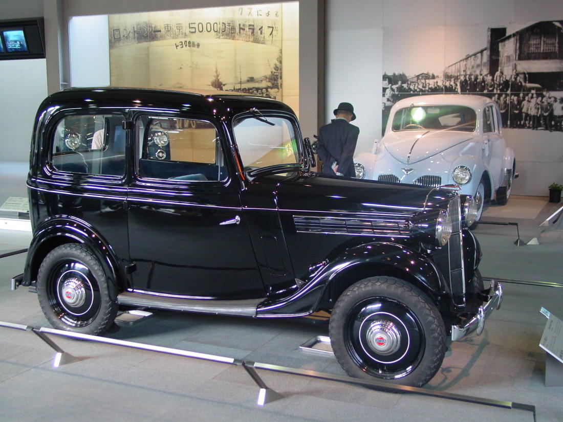 In the Toyota Automobile Museum.